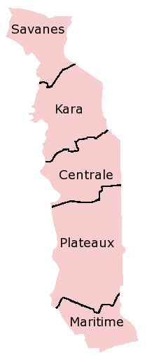 Map of the Regions of Togo; created with the GIMP. Made by User:Acntx.